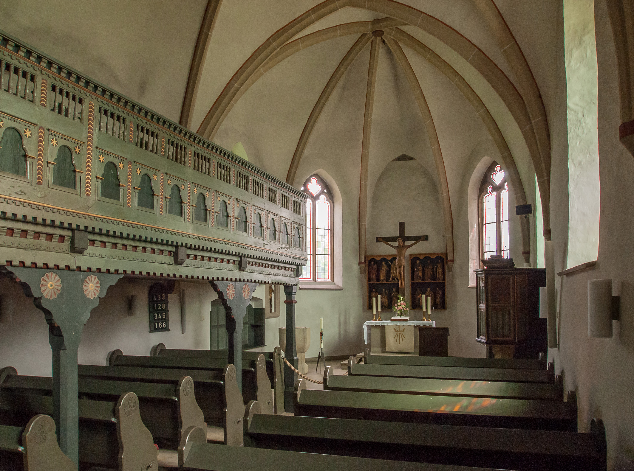 Evangelische Kirche in Holtrup, Altarraum. This is a photograph of an architectural monument.